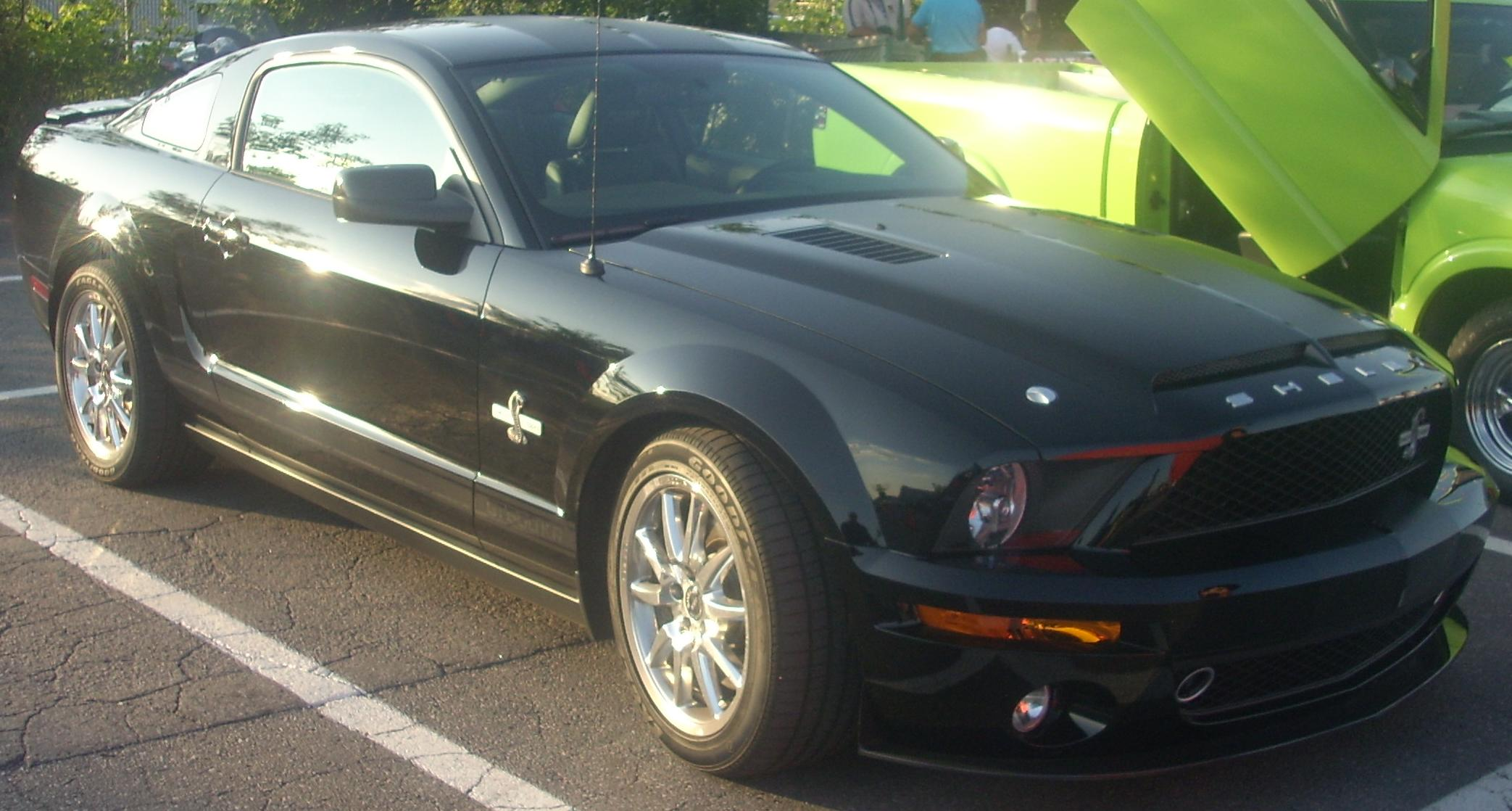 2007-2009 Shelby Mustang photographed in Montreal, Quebec, Canada at Gibeau Orange Julep.